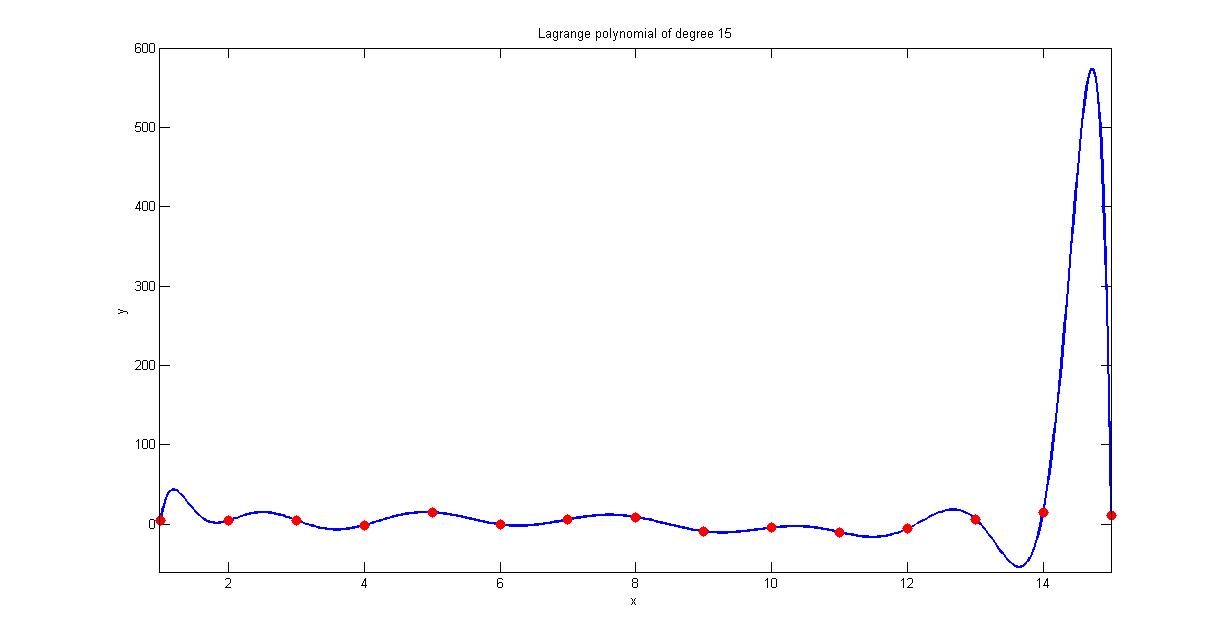 Lagrange polynomial of degree 15. The interpolation leads to a divergence and the behaviour is not what one expects.